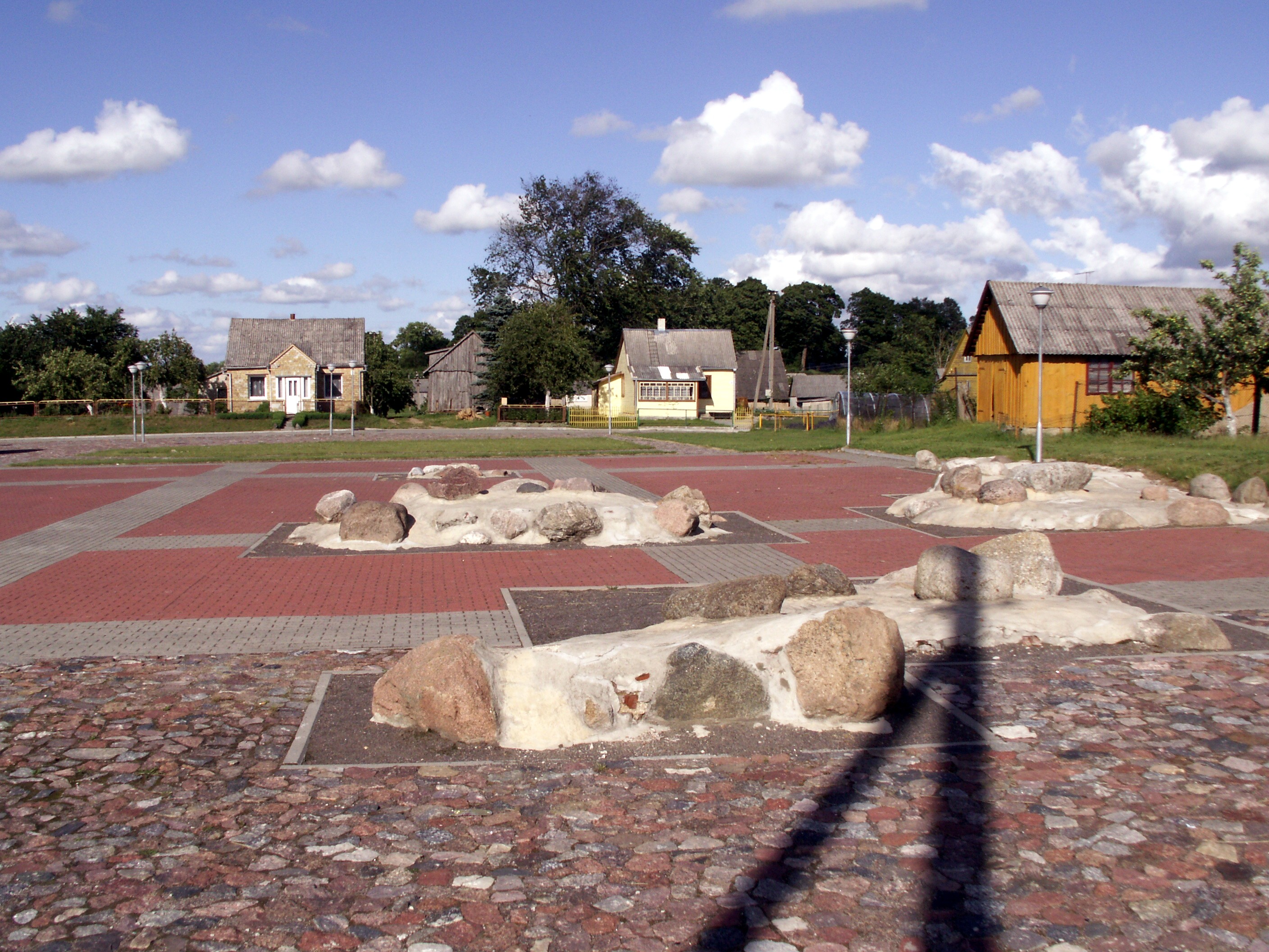 Kražiai collegium